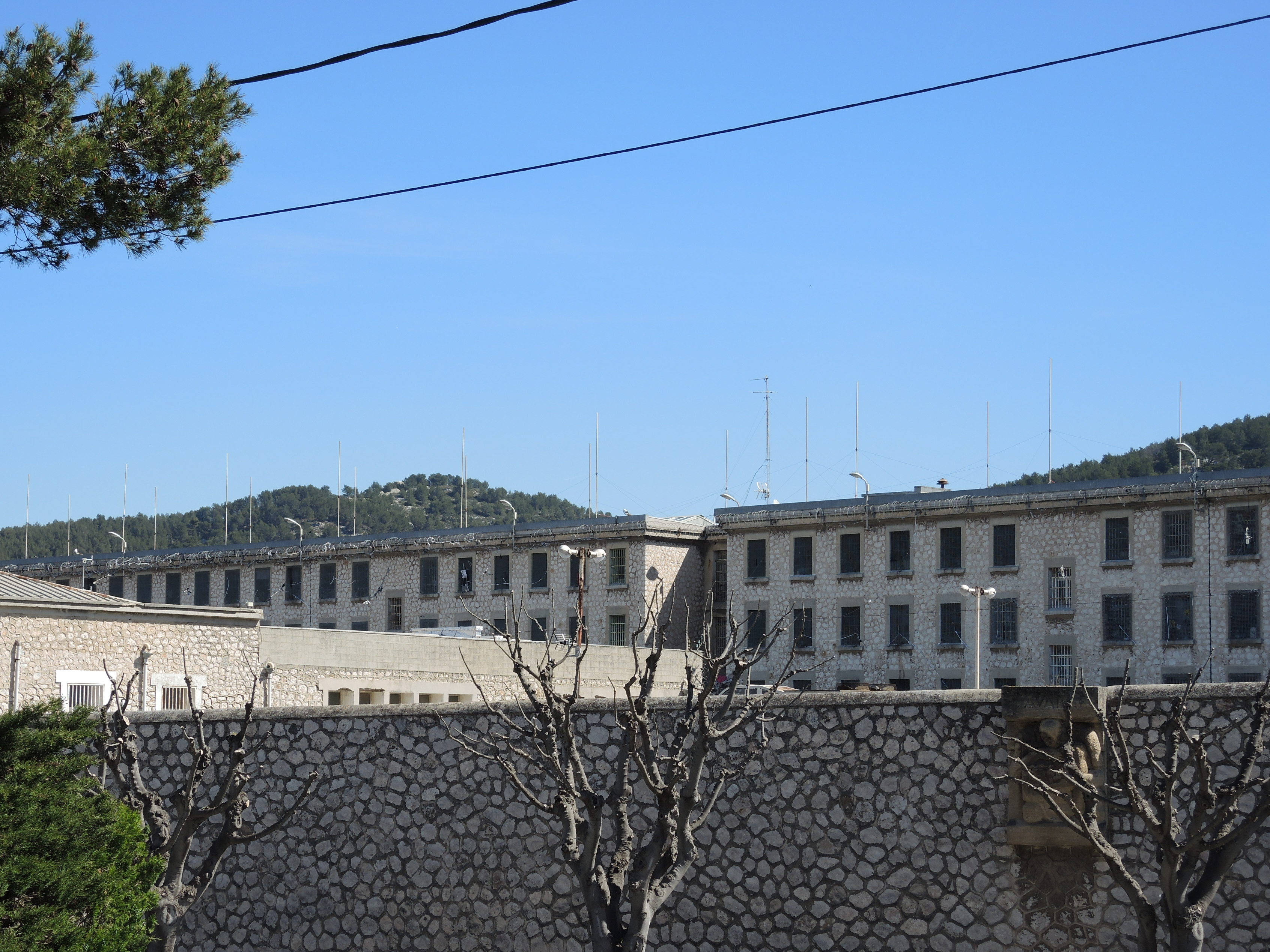 Les Baumettes prison in Marseille, France. Old buildings from the 1930s